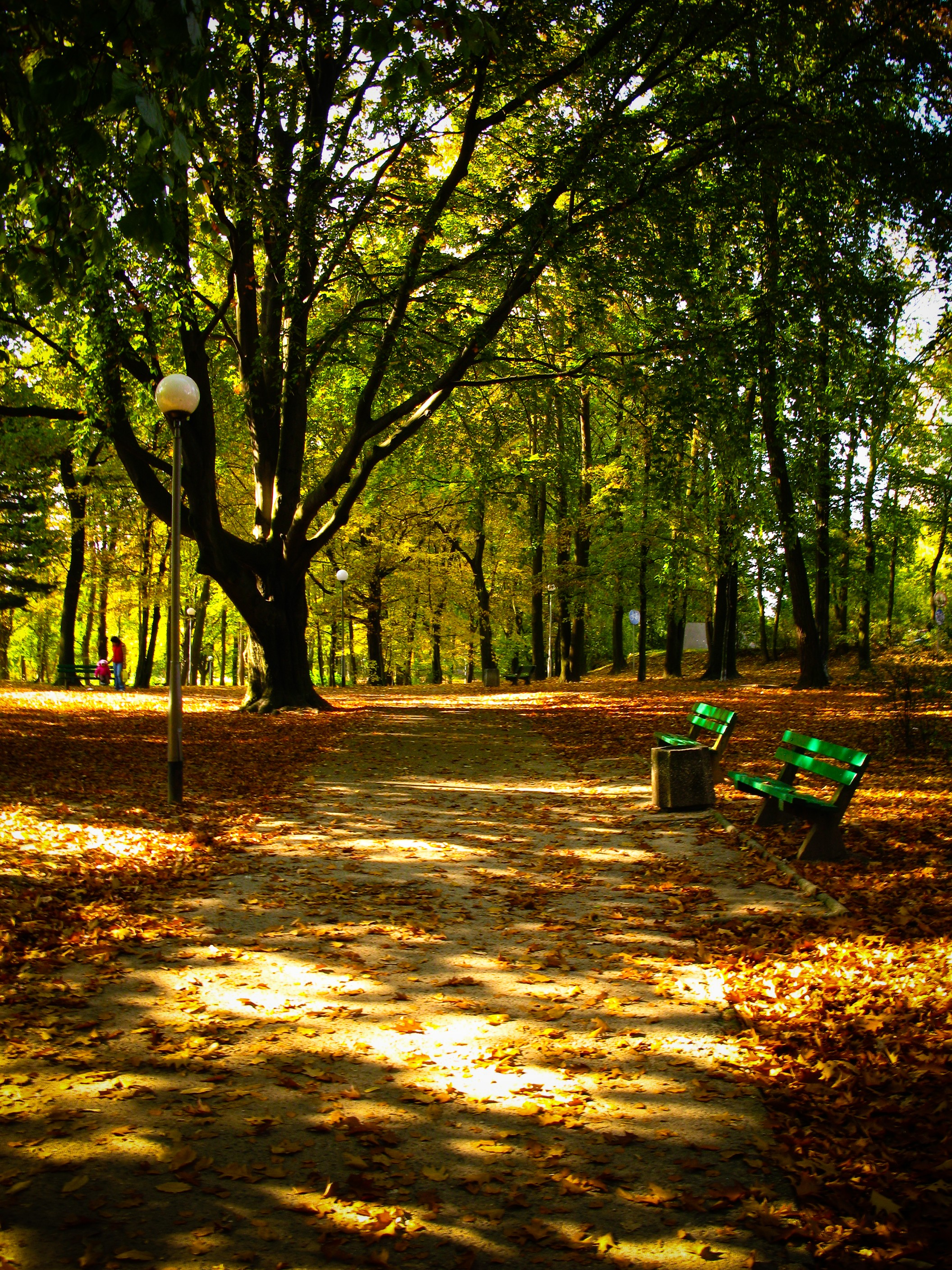 Piastowski park